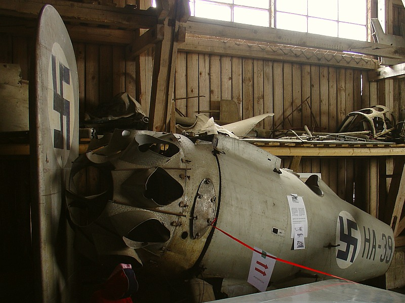 IVL D.26 Haukka, a Finnish fighter aircraft designed by Kurt Berger in 1927. An unrenovated example stored in Päijänne Tavastia Aviation Museum.